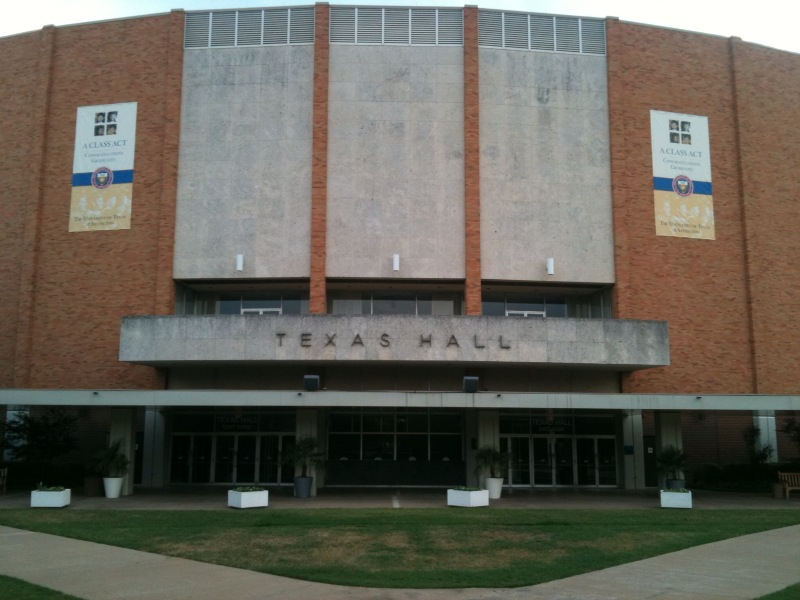 Texas Hall on the campus of the University of Texas at Arlington, Arlington, Texas.